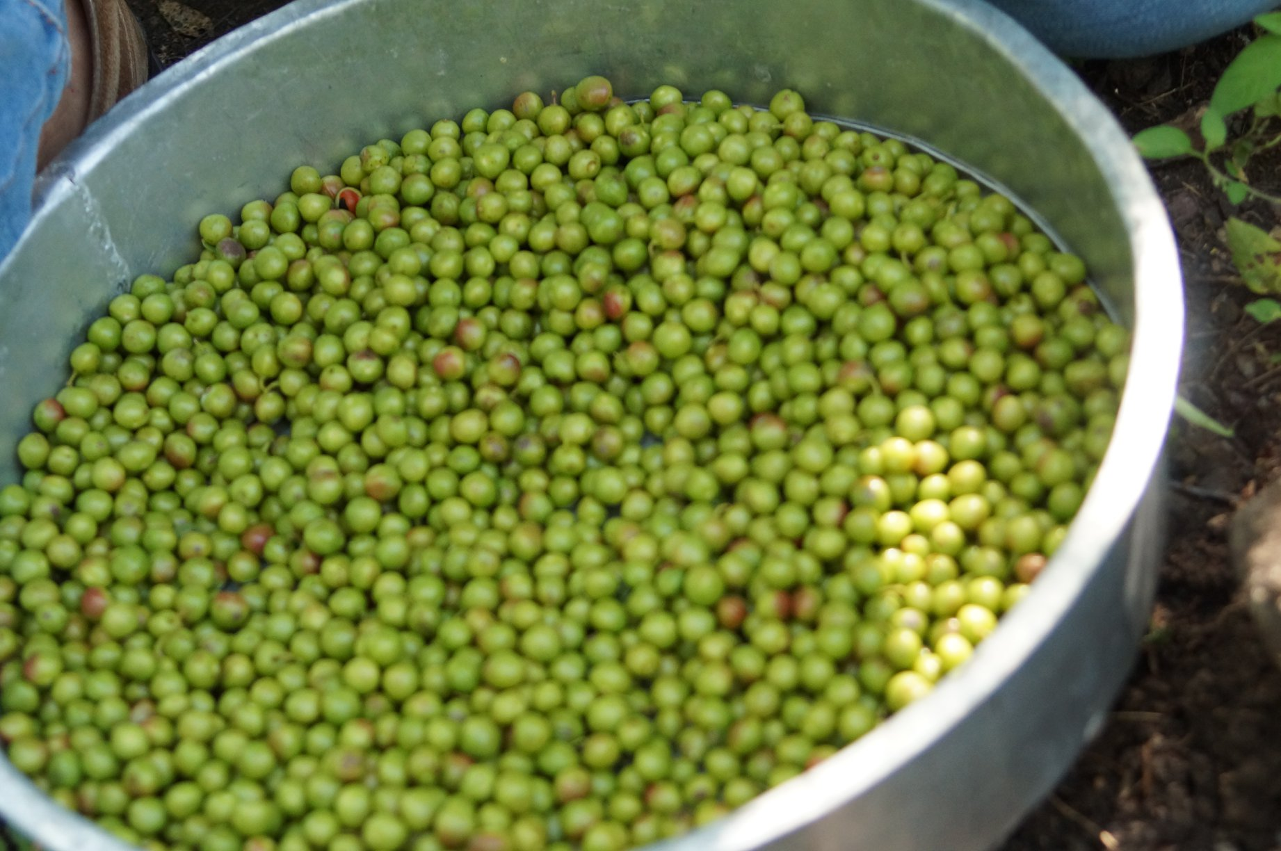 Fruits of the linaloe tree (Bursera linanoe), from which linaloe oil is extracted, Puebla de Zaragoza.